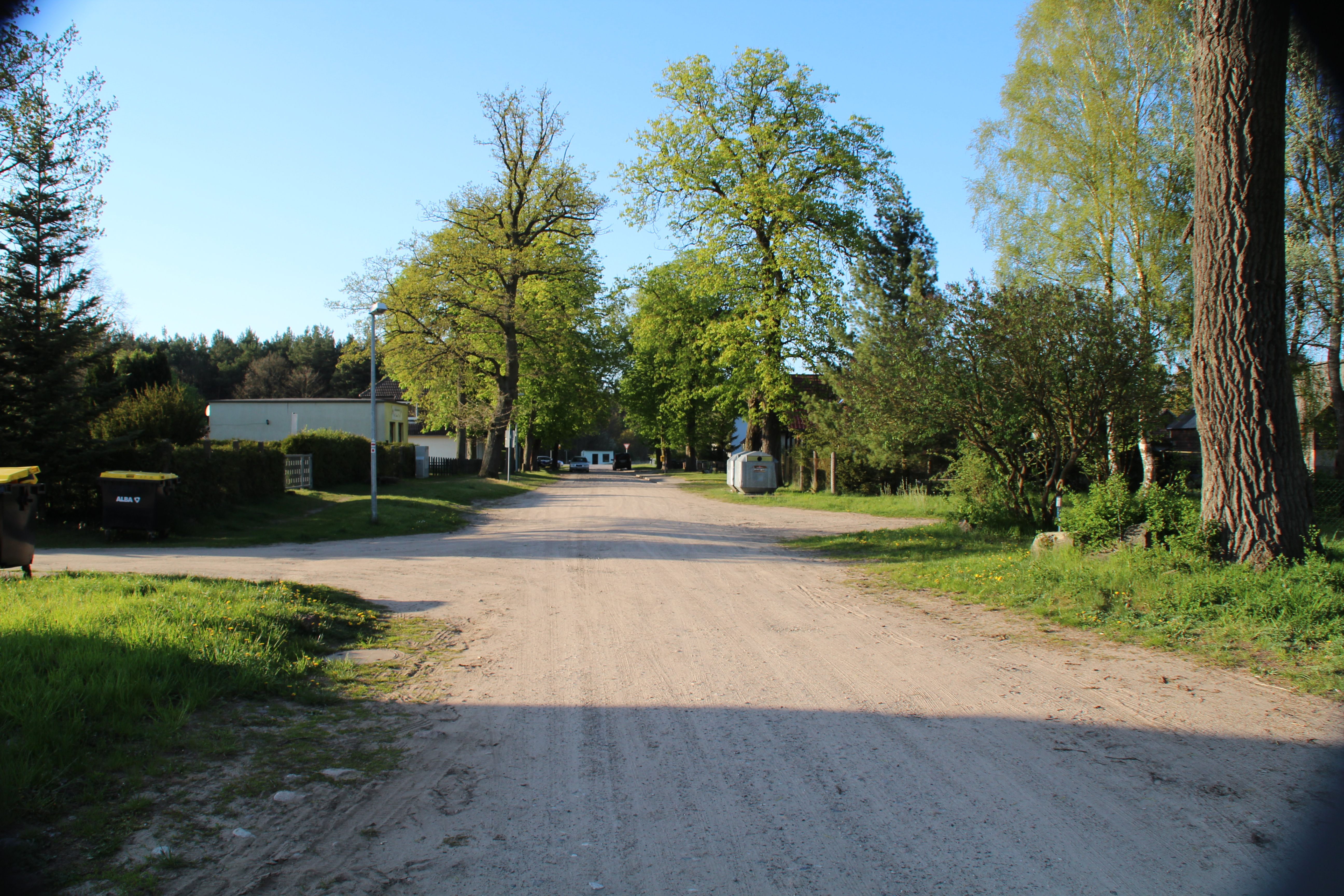 Neu-Placht (2016)